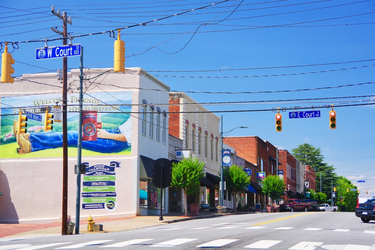 Main Street (U.S. Route 221) in Rutherfordton, North Carolina, United States.